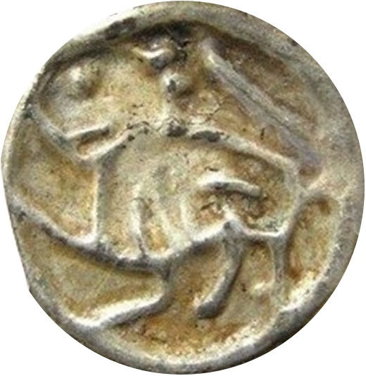 Coin of King Sweartgar II of Sweden (Sverker den yngre, Sverker Karlsson)